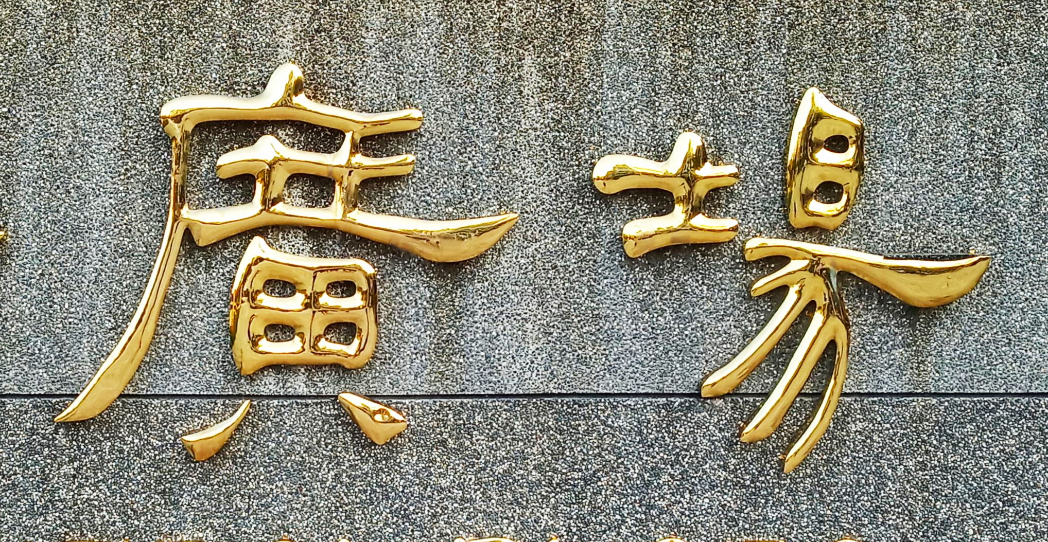 The word 廣場 in Traditional Chinese characters, which means "square", "plaza", "piazza", etc.